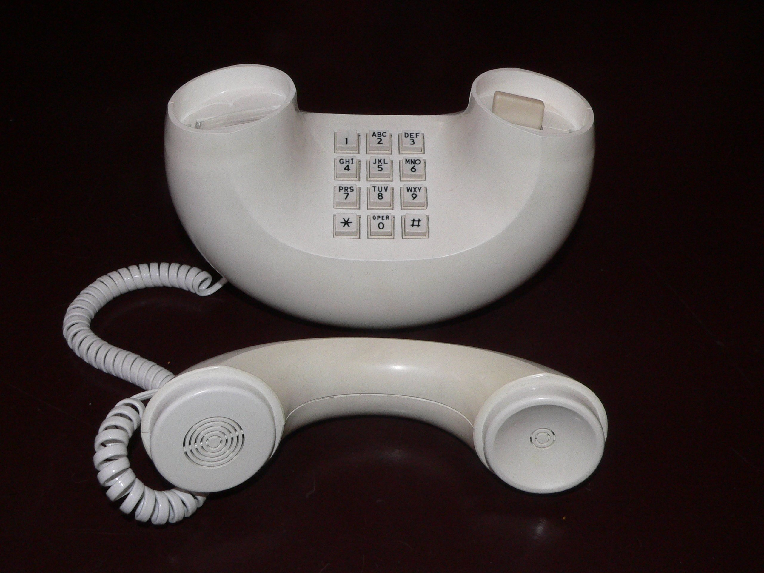 Telephone from the 60s